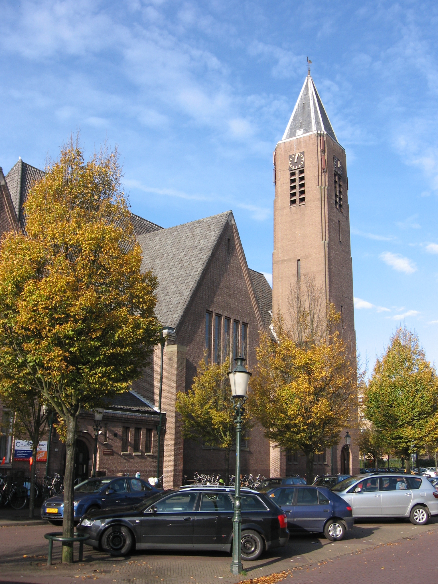 Wilhelminakerk, Bussum